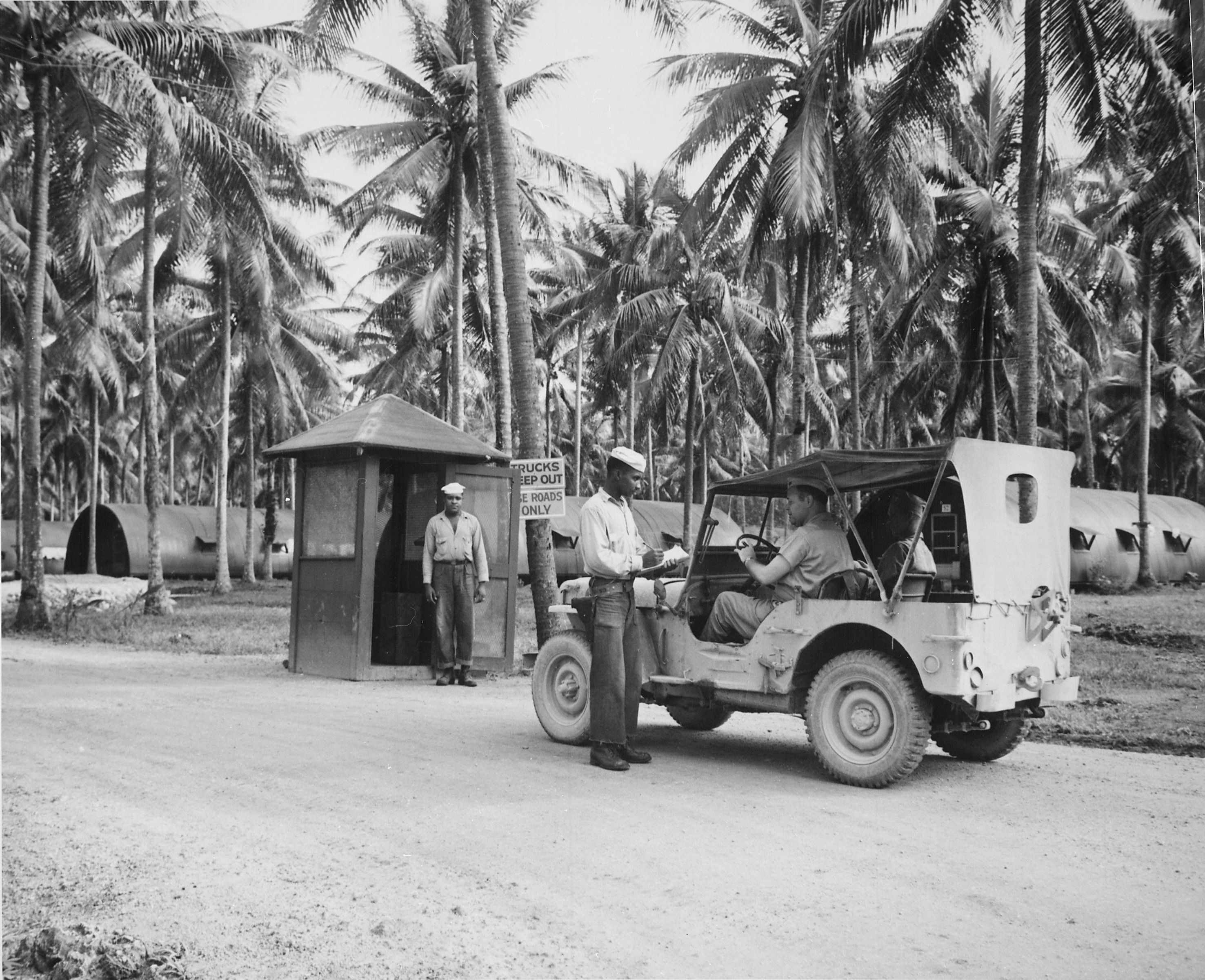 Scope and content: Guards on duty: S1/c Dook Bland and S1/c Taft Gray.